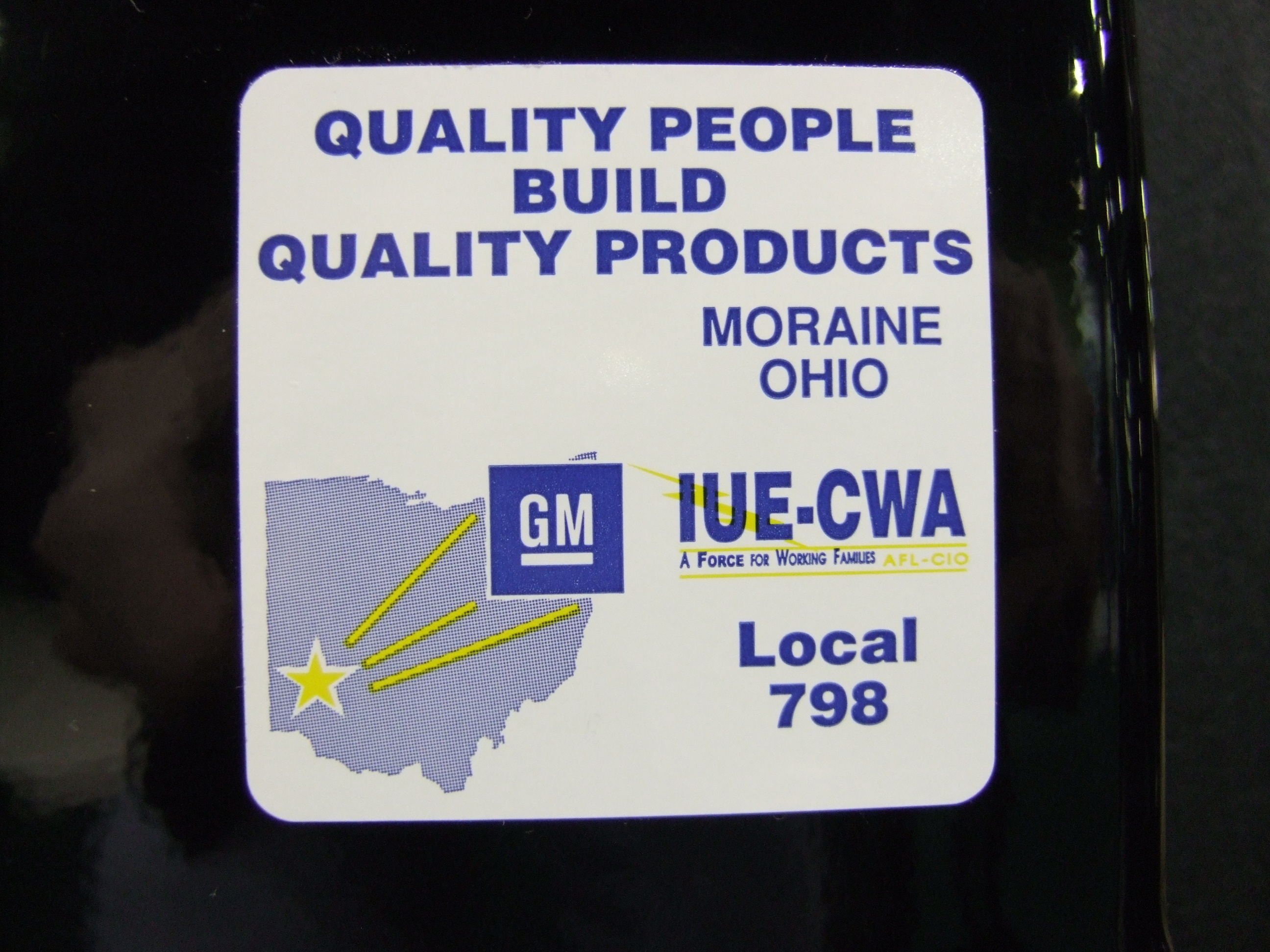 Sticker found on the GMT 360 vehicles assembled at the Moraine Assembly plant, Moraine, Ohio. Self made photo.